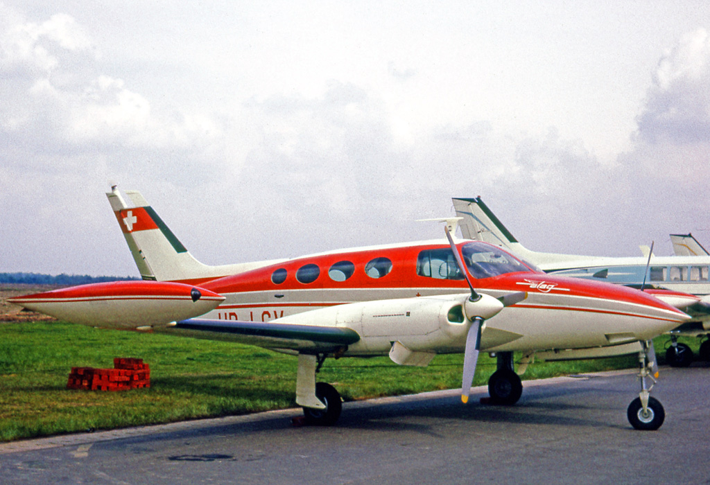 Cessna 411 HB-LCV from Switzerland at the 1966 Hanover Air Show